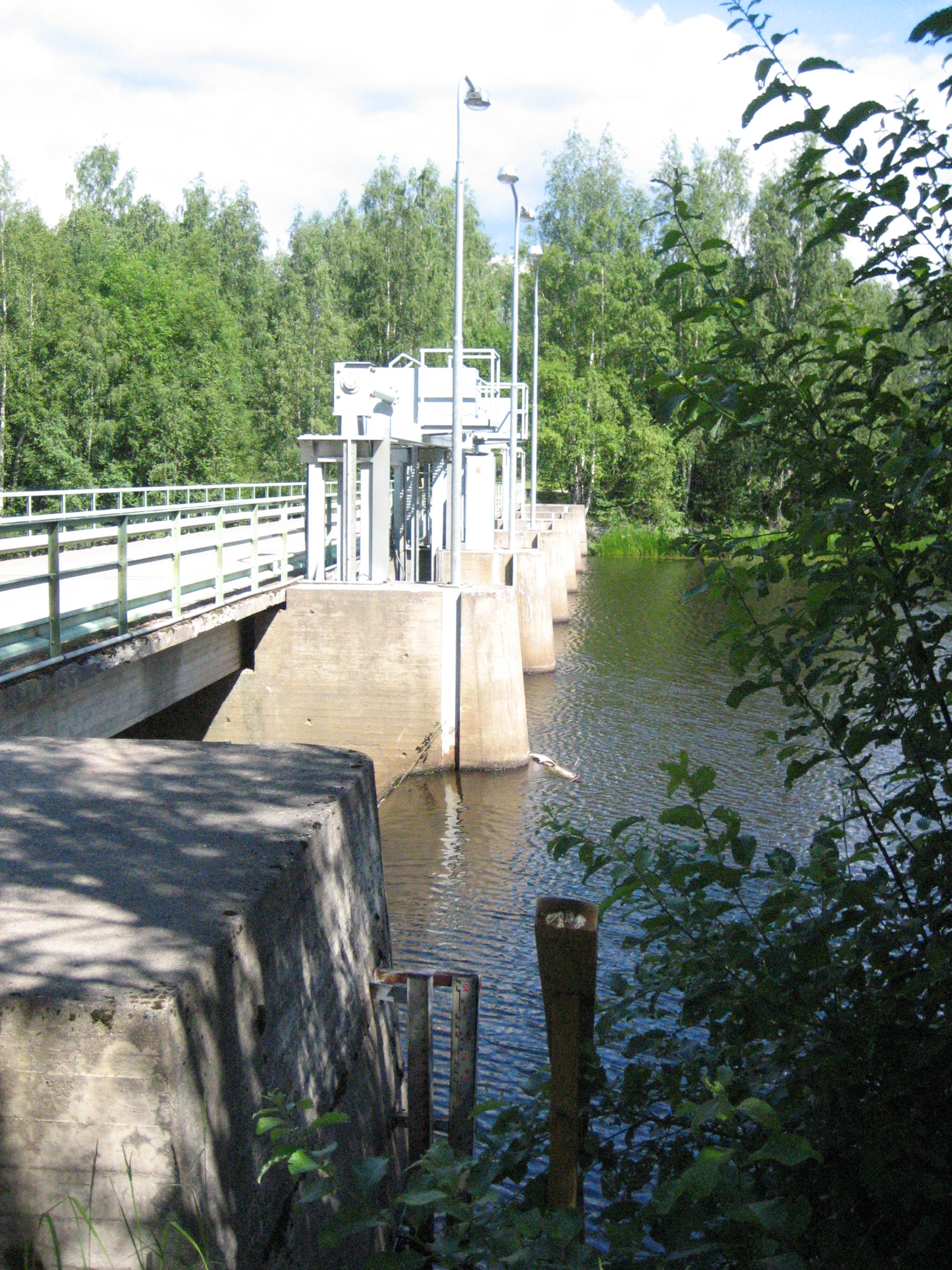 Weir at the Northwestern end of lake Inhottujärvi, Finland. Pomarkku river flows through the Weir.